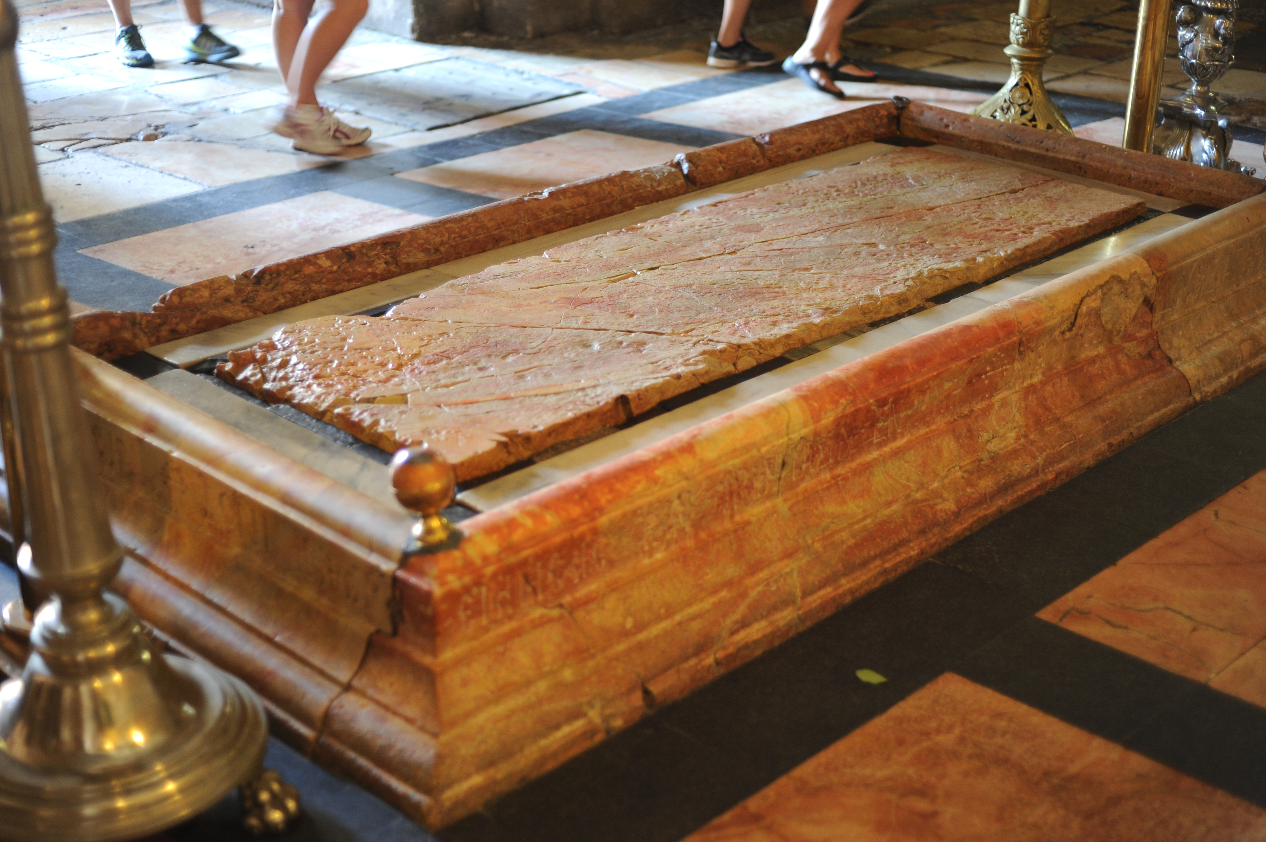 The Stone of Anointing, in the Church of the Holy Sepulchre in the Old city of Jerusalem